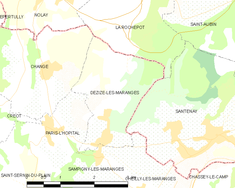 Map of French municipality